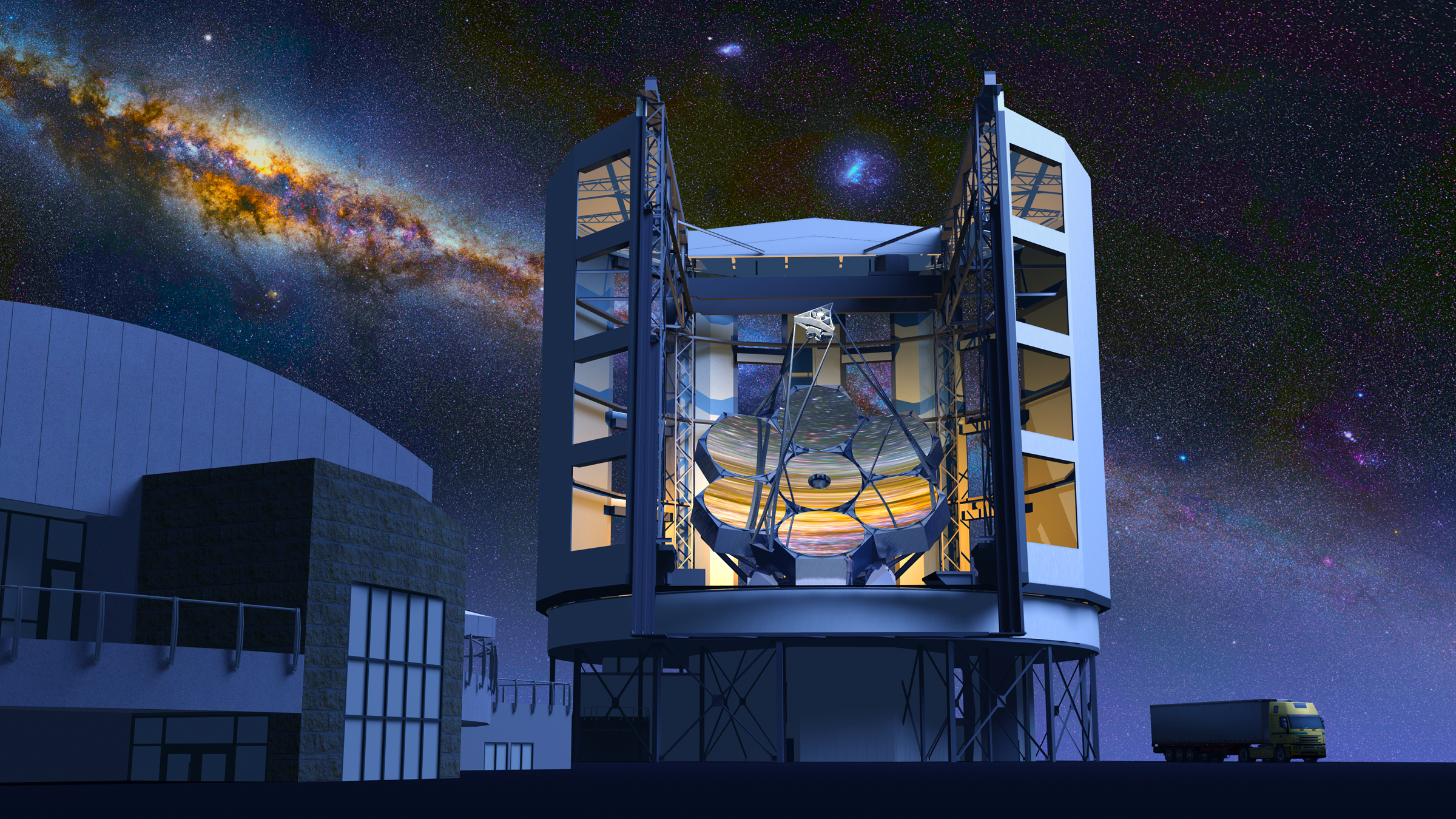 Artist's concept of the completed Giant Magellan Telescope which will be situated in the Atacama Desert some 115 km (71 mi) north-northeast of La Serena, Chile.